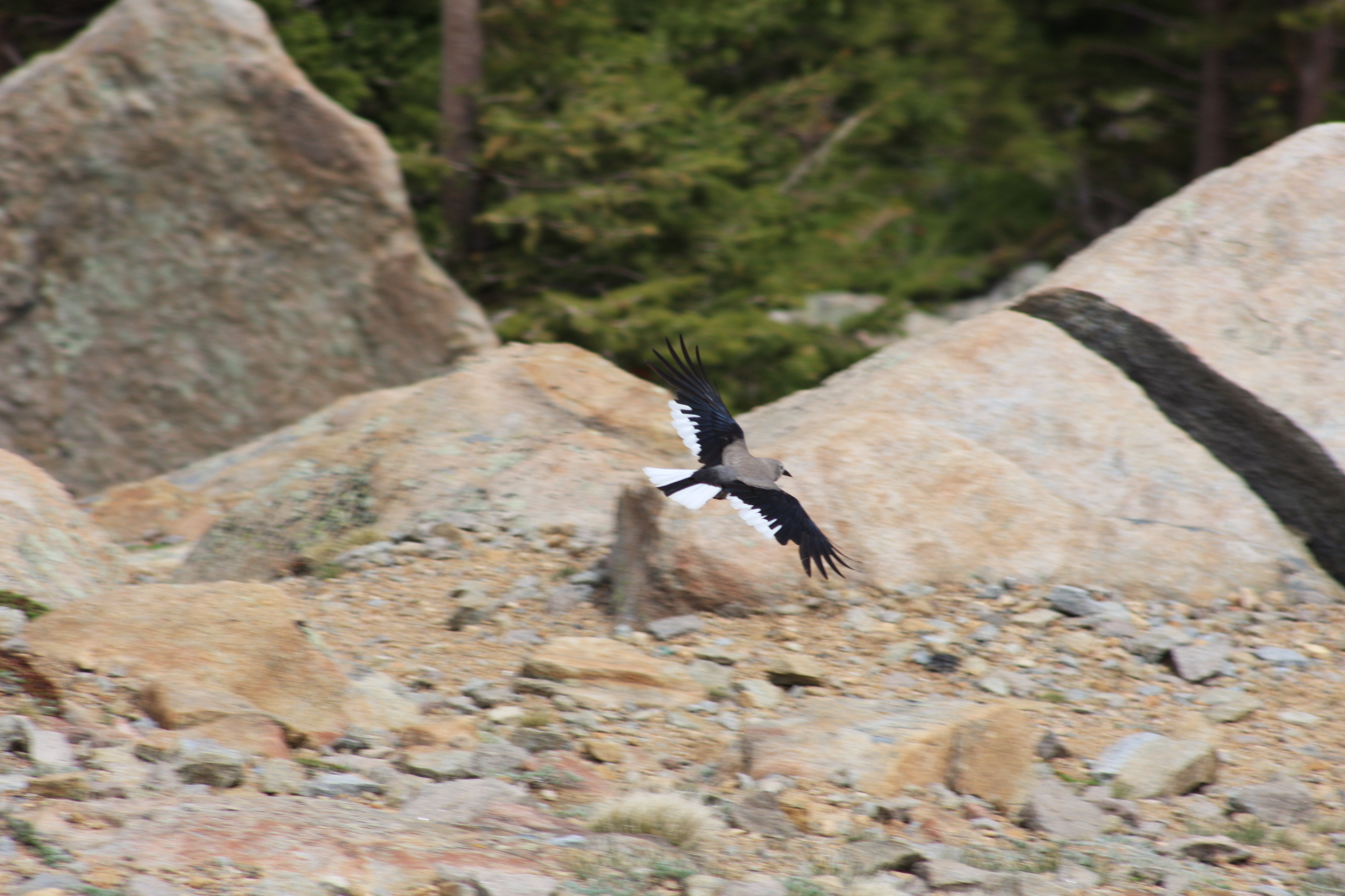 Clark's Nutcracker (Nucifraga columbiana) in mid flight, Larimer Land, United States.